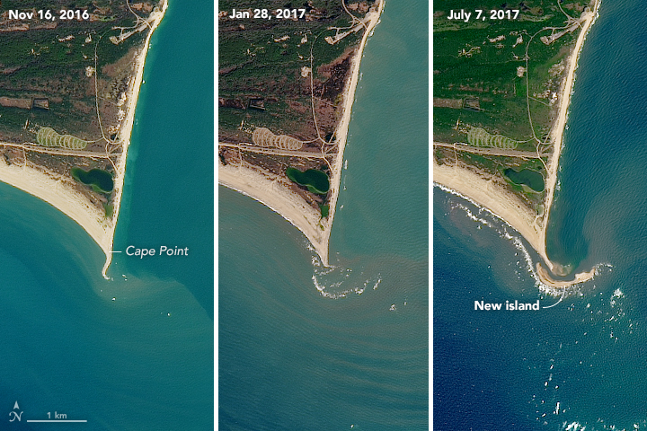 Shelly Island, NC as shown from NASA space image over time.